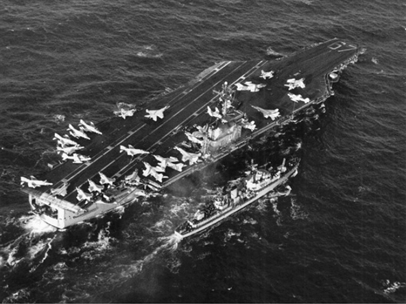 The U.S. Navy aircraft carrier USS John F. Kennedy (CVA-67) refuels the Dutch anti-submarine destroyer Hr.Ms. Gelderland (D811), her forward guns trained skyward, in the North Atlantic on 21 February 1971. John F. Kennedy, with assigned Carrier Air Wing 1 (CVW-1), was deployed to the Mediterranean Sea from 14 September 1970 to 1 March 1971.